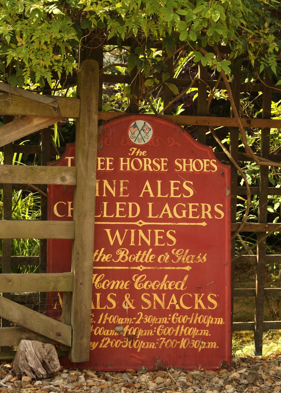 Sign of the former Three Horse Shoes pub, Somerton Road, Upper Heyford, Oxfordshire